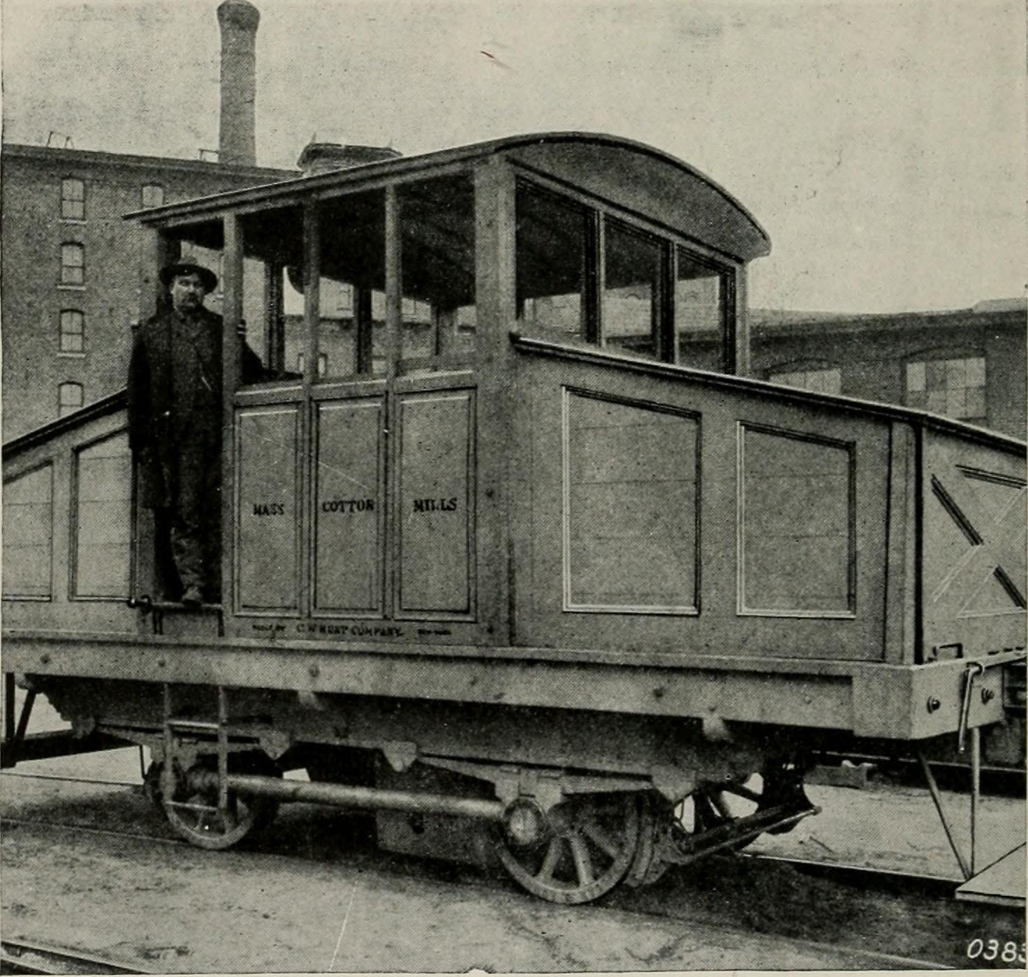 Title: Electric railways, theoretically and practically treated Year: 1905 (1900s) Authors: Ashe, Sydney Whitmore Keiley, John D Subjects: Electric railroads Publisher: New York, Van Nostrand Text Appearing Before Image: Fig. 161. —INDUSTRIAL NARROW-GAUGE LOCOMOTIVE. locomotive hitherto placed in service. The motors havea large current capacity, the design of all working partsis simple and accessible, and the depreciation and cost ofmaintenance should therefore be extremely small. Thelocomotives are provided with all the accessories of steamlocomotives, namely, air compressors for the brakes, whistle,bell, heaters, and pneumatic sanding device, all of whichare operated by electric power. Industrial Locomotives. — An industrial locomotive isusually designed to operate upon narrow-gauge tracks 262 ELECTRIC RAILWAYS, at very low speed and to exert a small draw-bar pull,which implies small dead weight. As a source of power,storage batteries are often employed, the dead weight ofthe batteries correspondingly decreasing the necessarynet weight of the truck to produce a given traction.The use of storage batteries as a source of power elim- Text Appearing After Image: Fig. 162.—STORAGE-BATTERY LOCOMOTIVE. inates the overhead trolley with its accompanying sup-porting structure, which would be a serious objection inmachine shops. Consideration, must be taken of theobjectionable features of storage batteries, such as fumes, ELECTRIC LOCOMOTIVES. 263 moisture, heavy depreciation, necessary care, etc. Figs.161 and 162 represent two types of industrial storage-battery locomotives built by the C. W. Hunt Company.